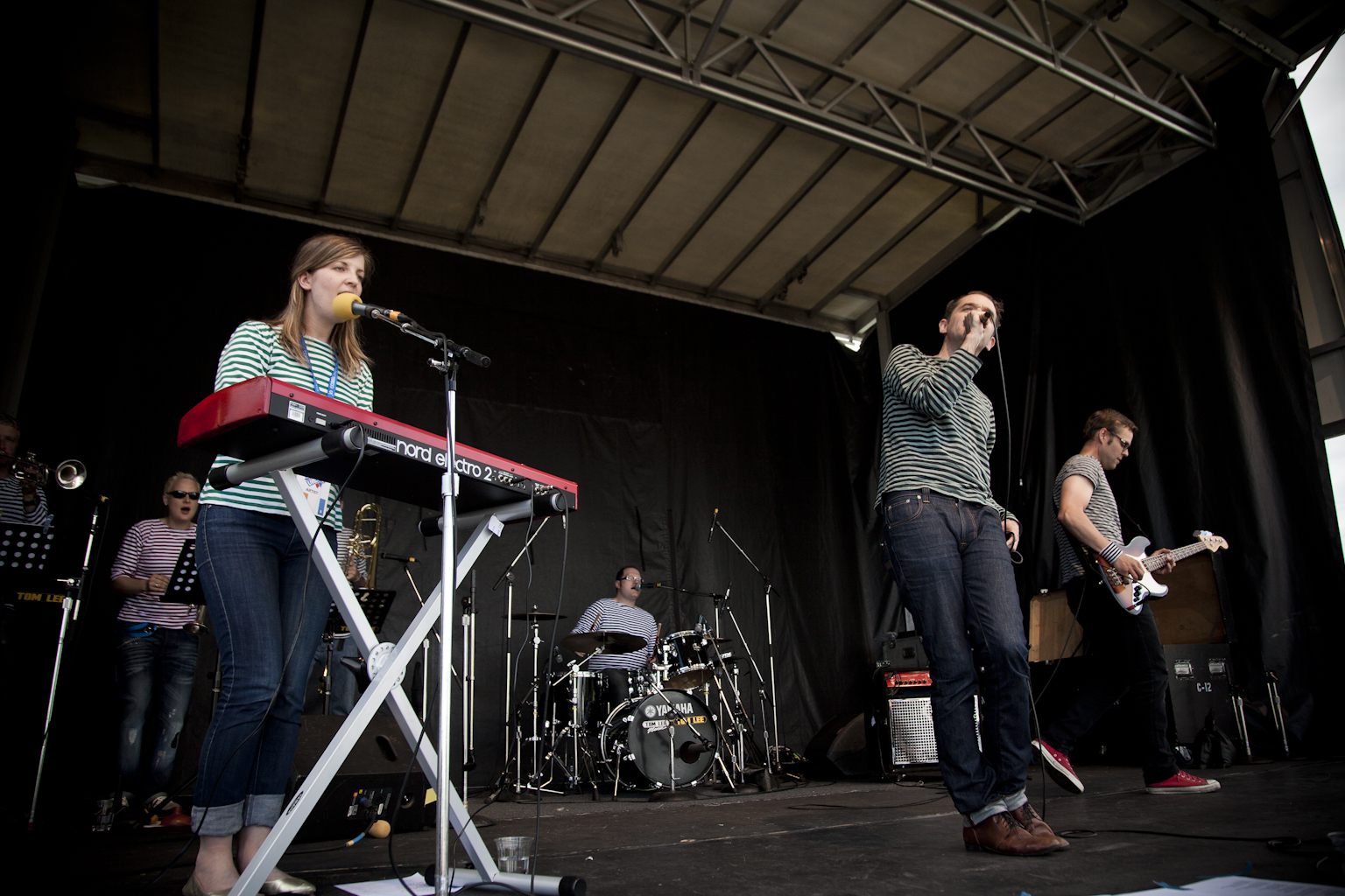 The Salteens